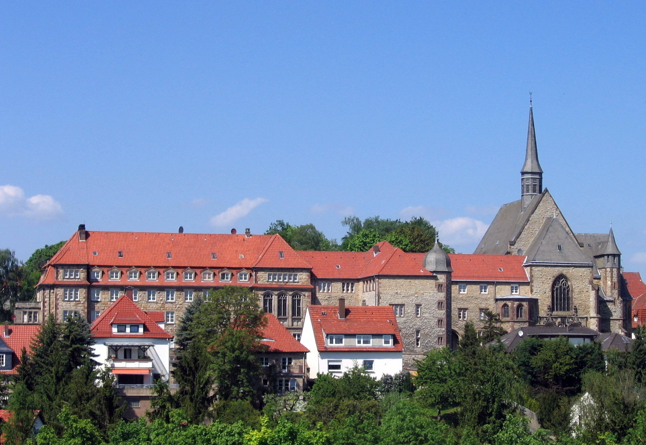 The former Dominican monastery in Warburg where now the Syriac Orthodox Church's bishopric of Germany has its episcopal seat.